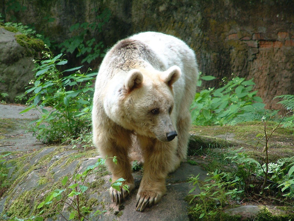 Syrian Brown Bear in Tiergarten Nürnberg, Nuremberg, Germany.